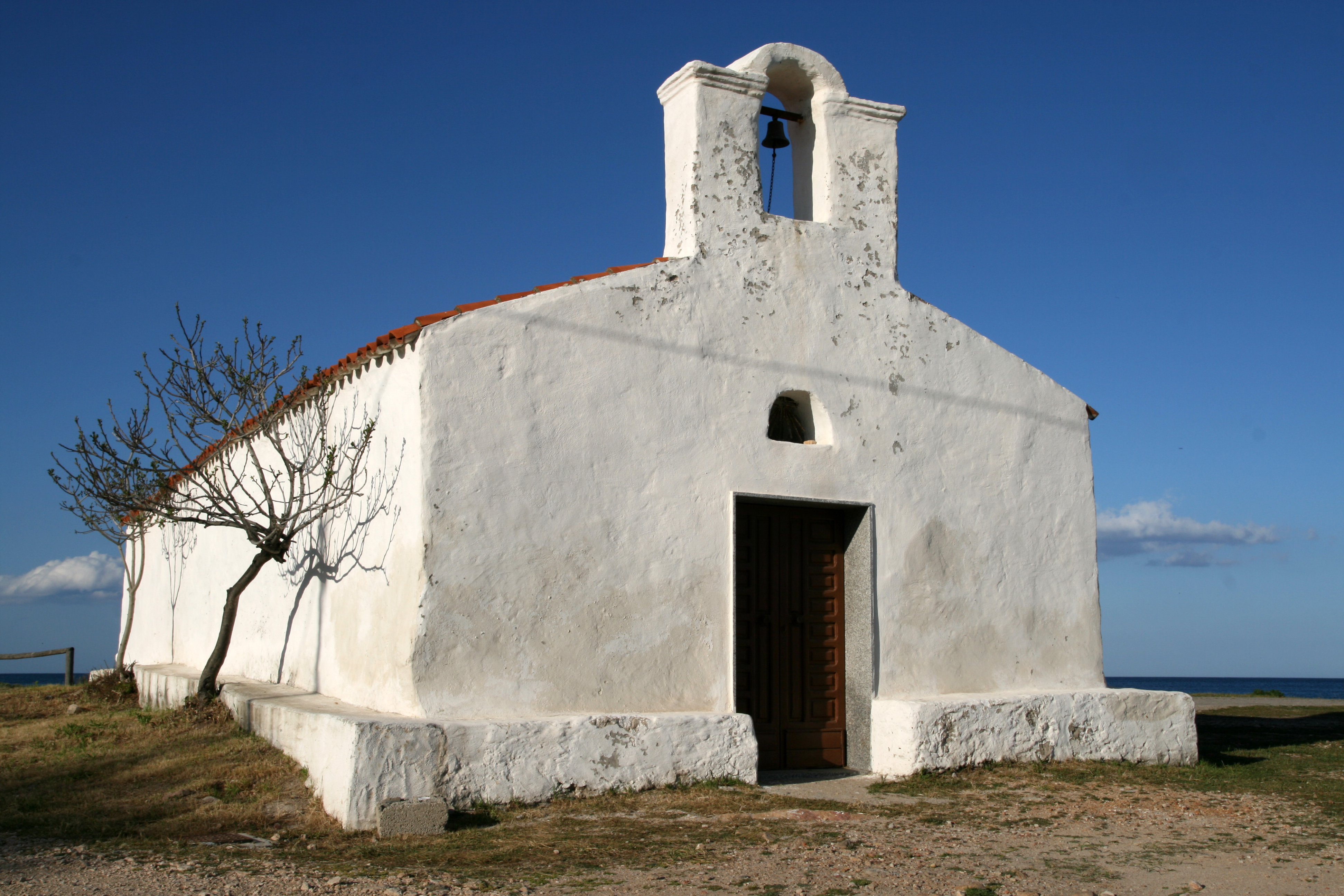 Church in La Caletta San Giovanni di Posada, Sardinia